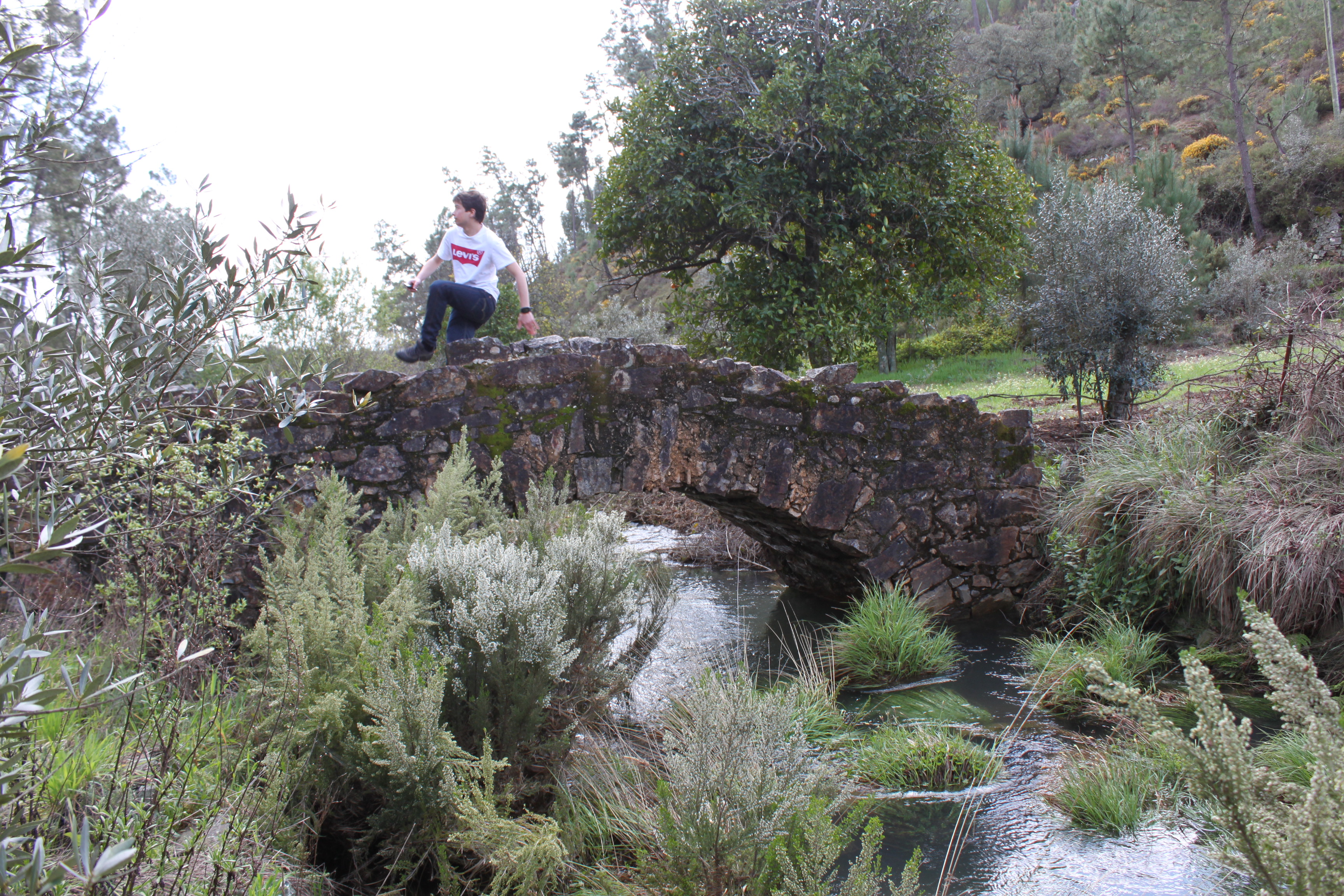 Bridge near Caratão, taken in April, 2013.